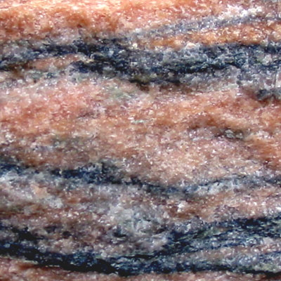 Pink marble from Khakassia